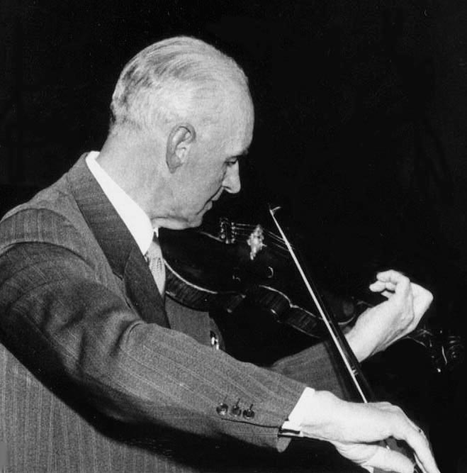 Musical director Filadelfia church Stockholm 1919-1955